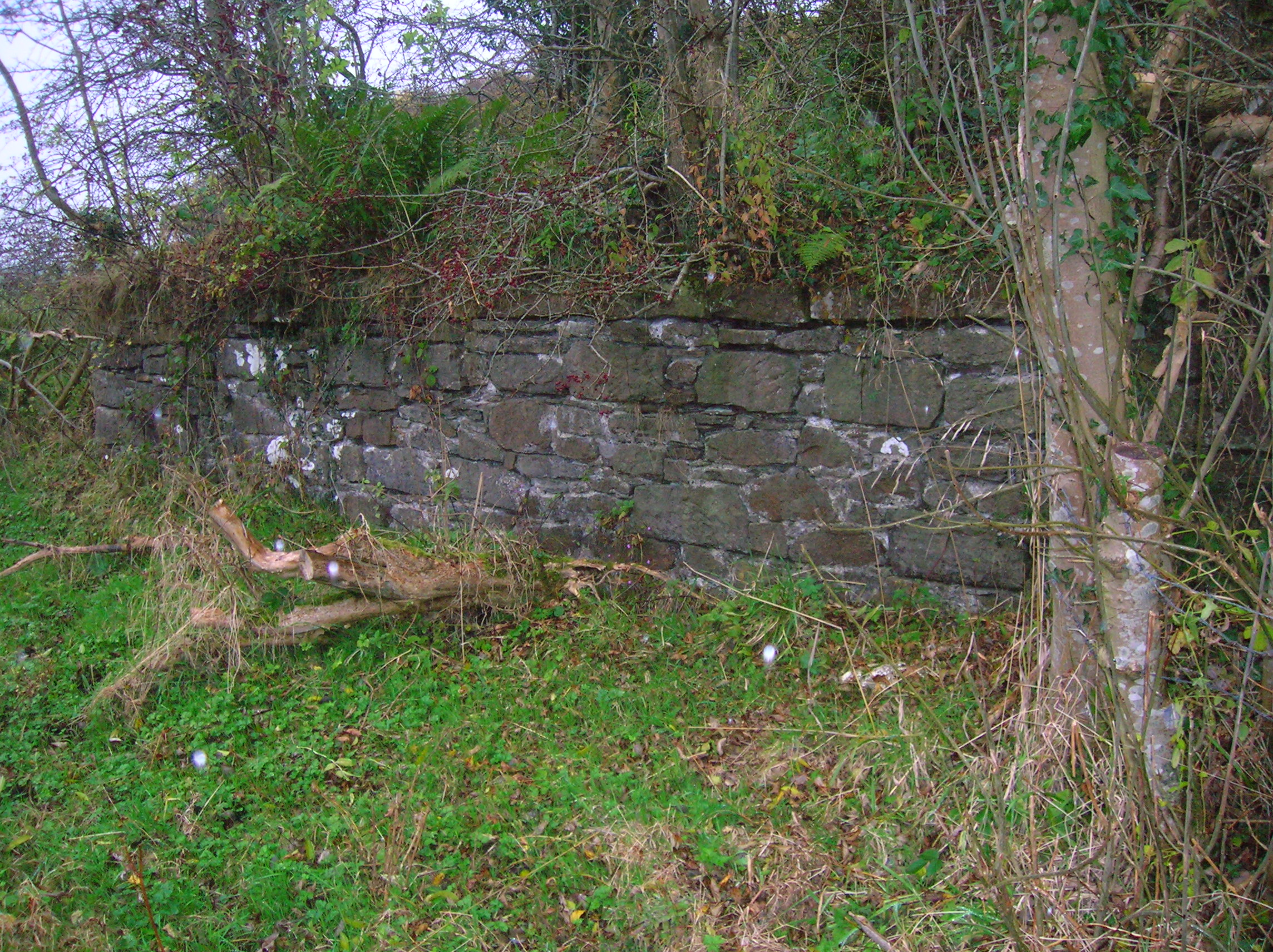 An old colliery loading dock at Eglinton Country Park, Kilwinning, North Ayrshire, Scotland.